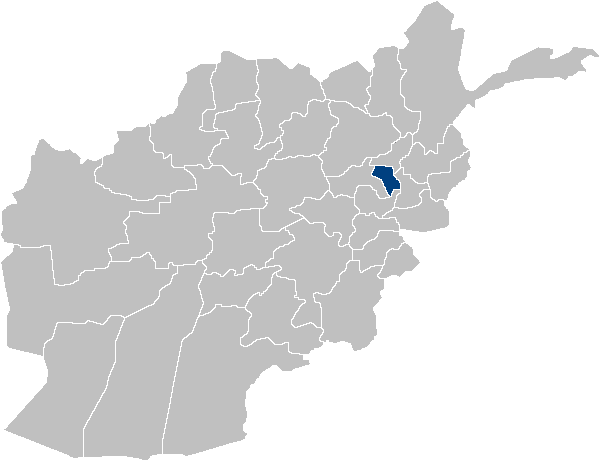 Location map for Kapisa Province in Afghanistan. Original map source: Image:Afghanistan_provinces_blank.png